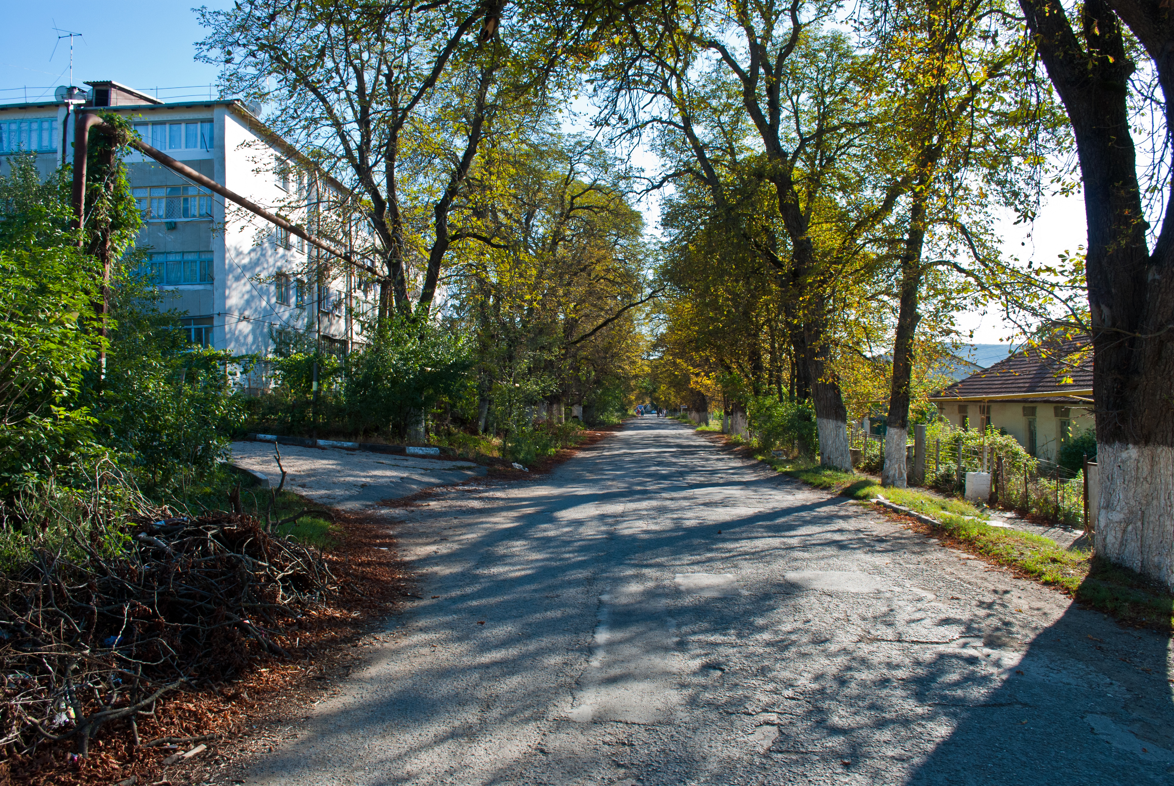 Main street of the village Kashtanovoye (Simferopol Raion, Crimea).